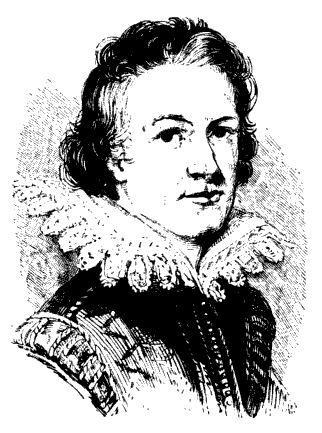 William Drummond of Hawthornden, (December 13, 1585–December 4, 1649), called "of Hawthornden", Scottish poet.